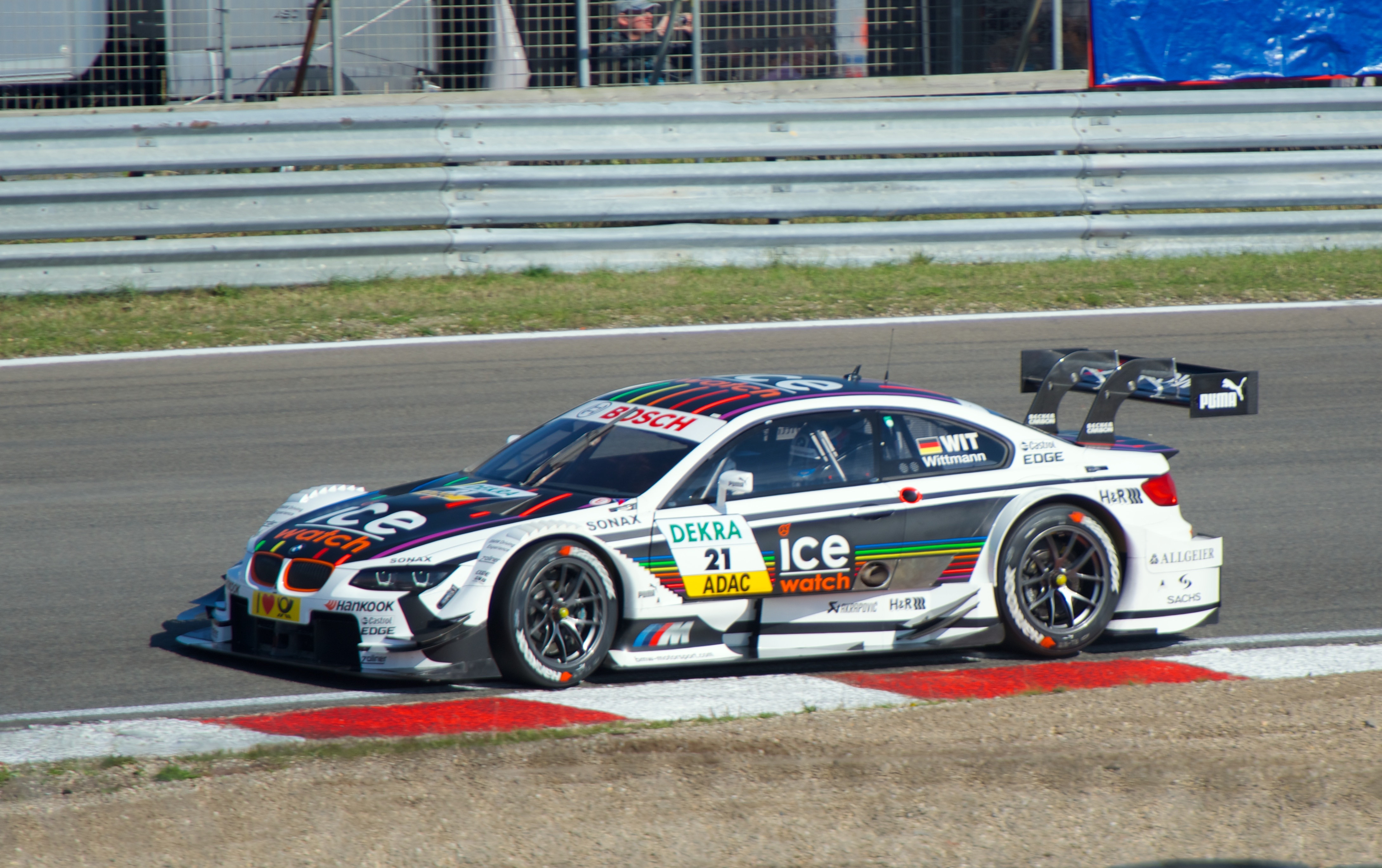 BMW M3 DTM (E92) of MTEK